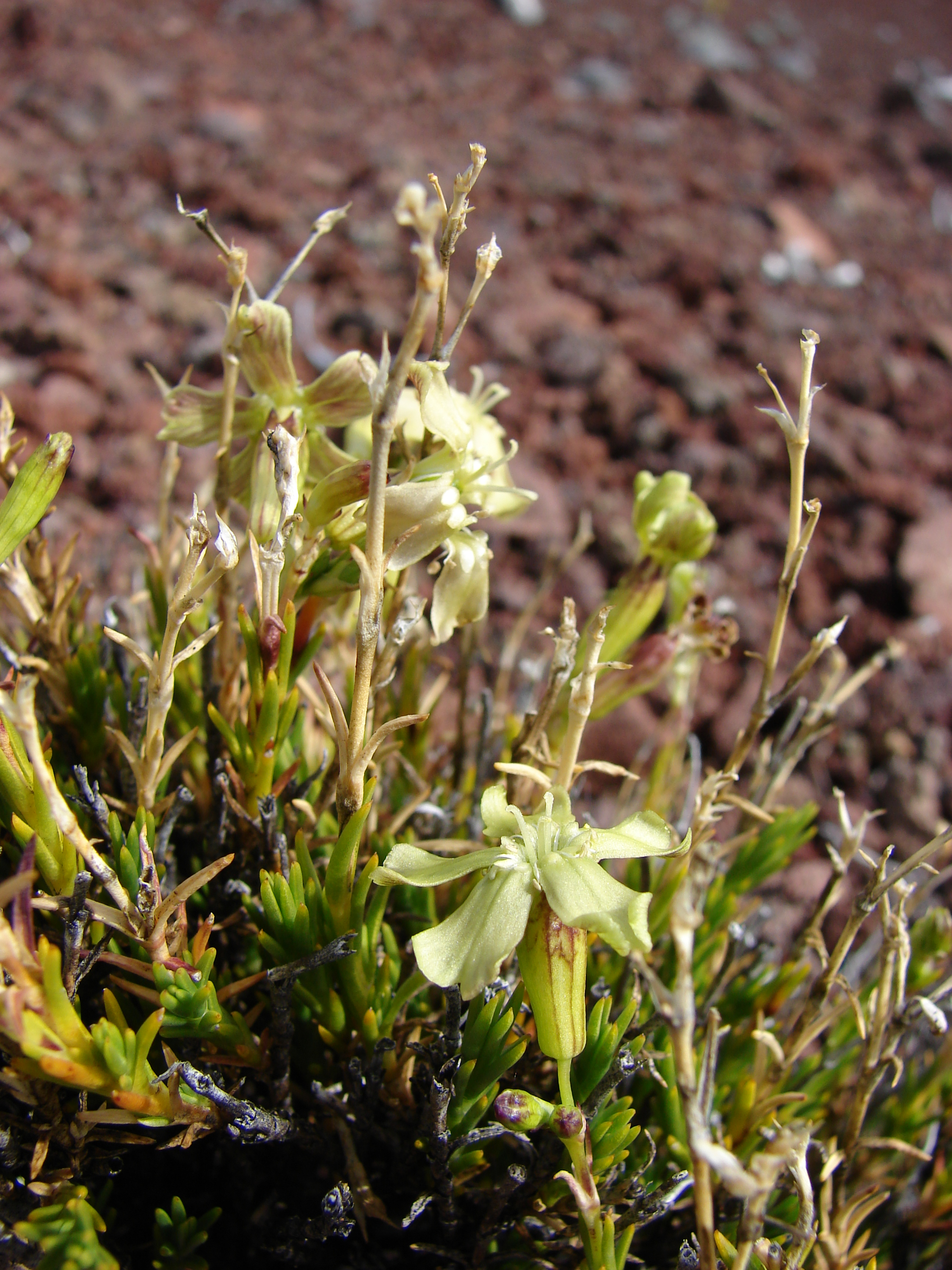 Silene struthioloides (flowers). Location: Maui, Puu o Pele Haleakala National Park